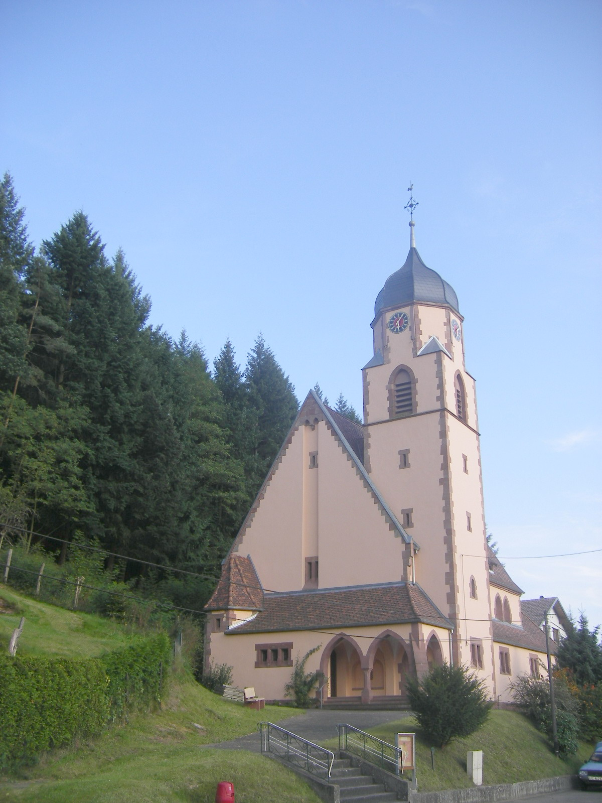 Philippsbourg